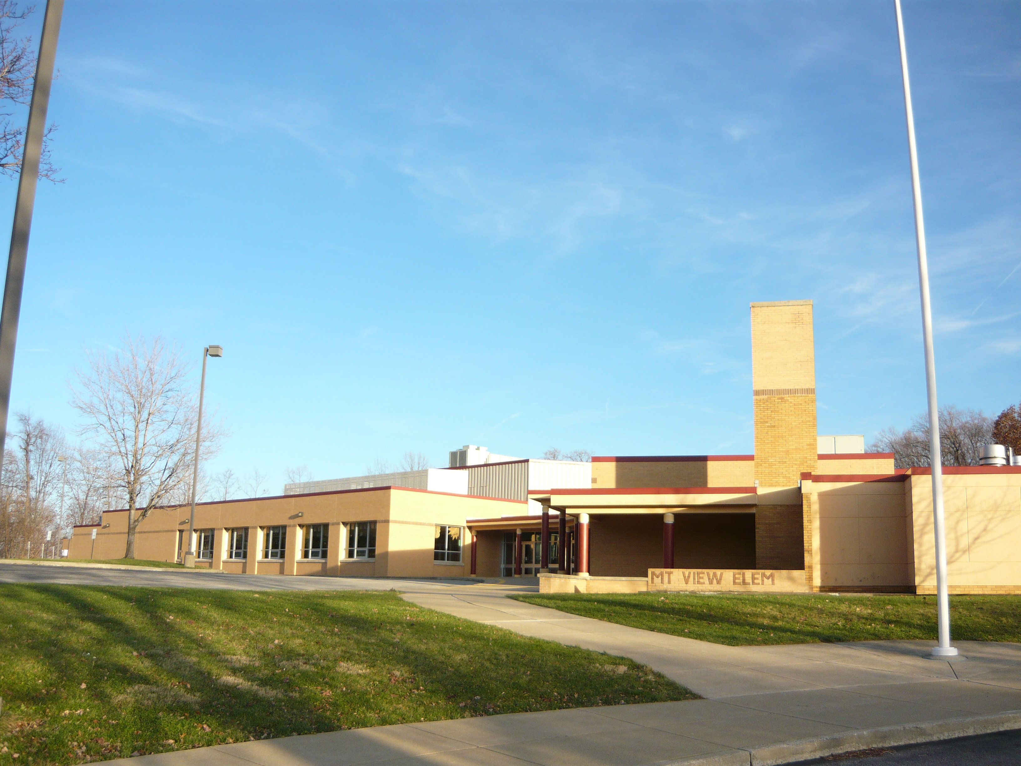 Mountain View Elementary School, 1010 Mountain View Drive, Greensburg (actually in Unity Township), Westmoreland County, Pennsylvania. Part of Greater Latrobe School District.